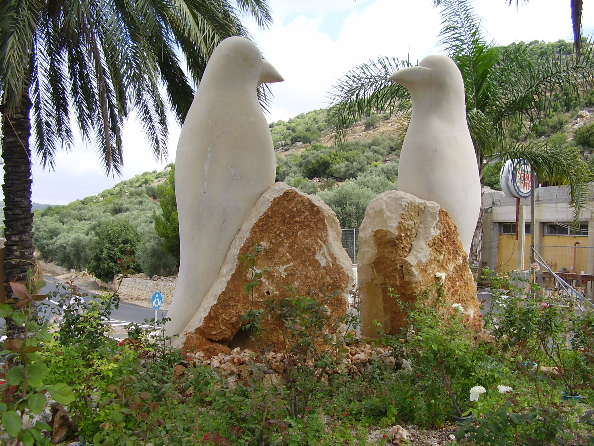 statue of birds in peki\'in in upper galilee